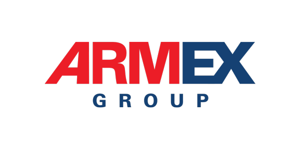 Logo of company ARMEX GROUP s.r.o.